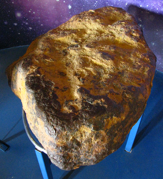 The Muonionalusta meteorite on exhibition in the entrance hall of the National Museum in Prague, Czech Republic, in April 2010.